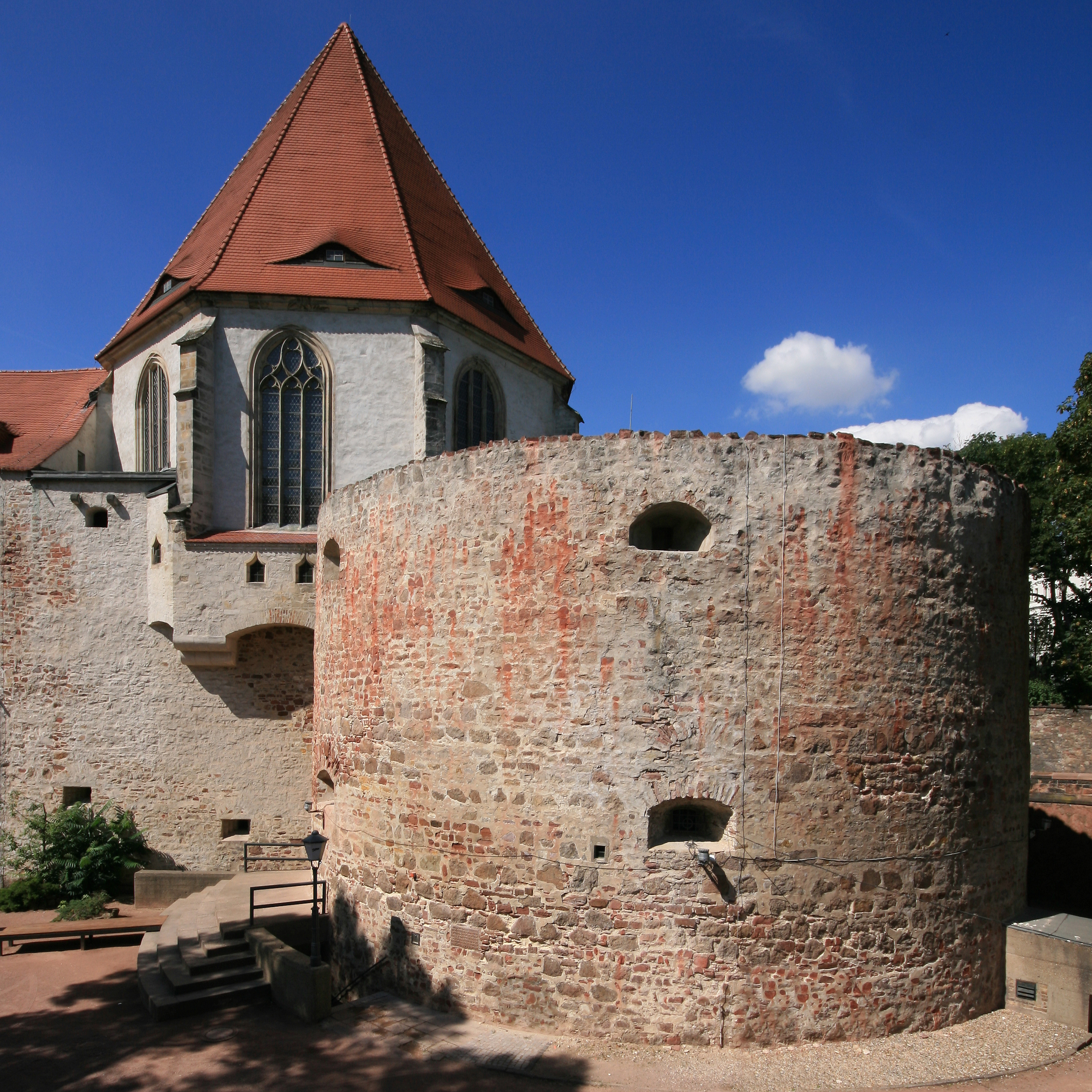 Moritzburg, North-East-Tower with student club "Turm"